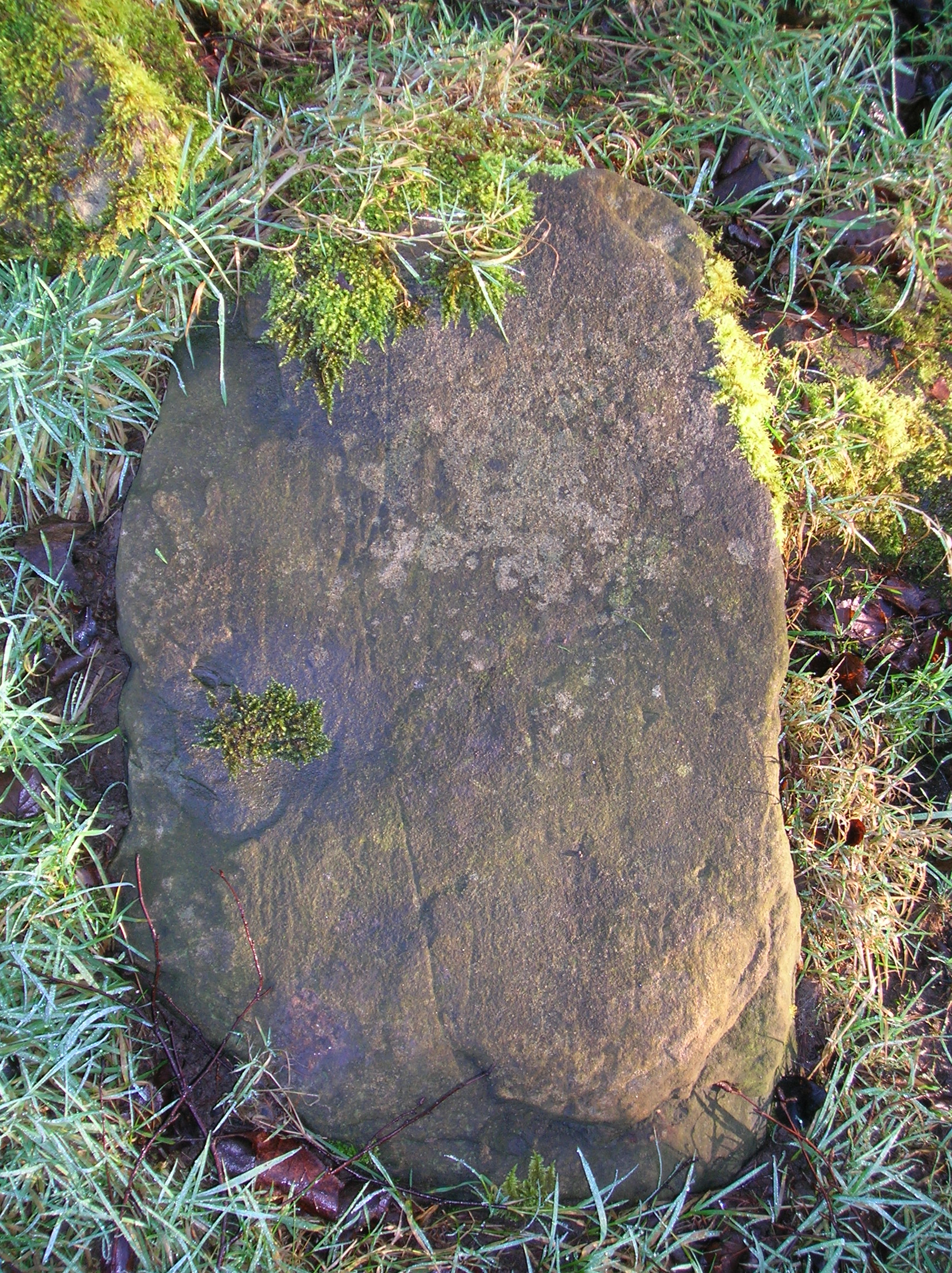 Plough marks on a stone in a clearance cairn, Eglinton, North Ayrshire, Scotland.